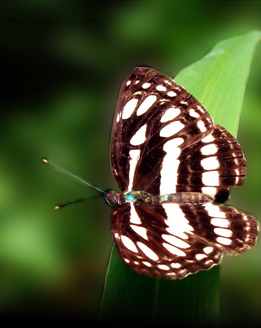 A common sailor found in Dumbara,Rathnapura,Srilanka